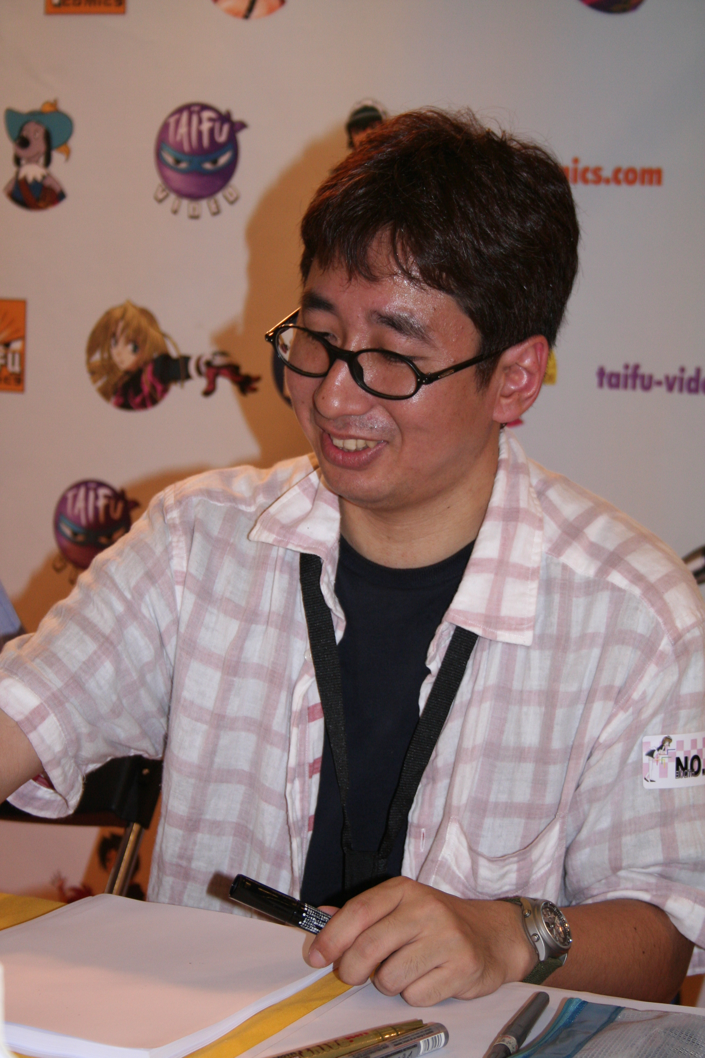 Autograph session with Hideki Owada at Japan Expo 2006 (Paris, France).